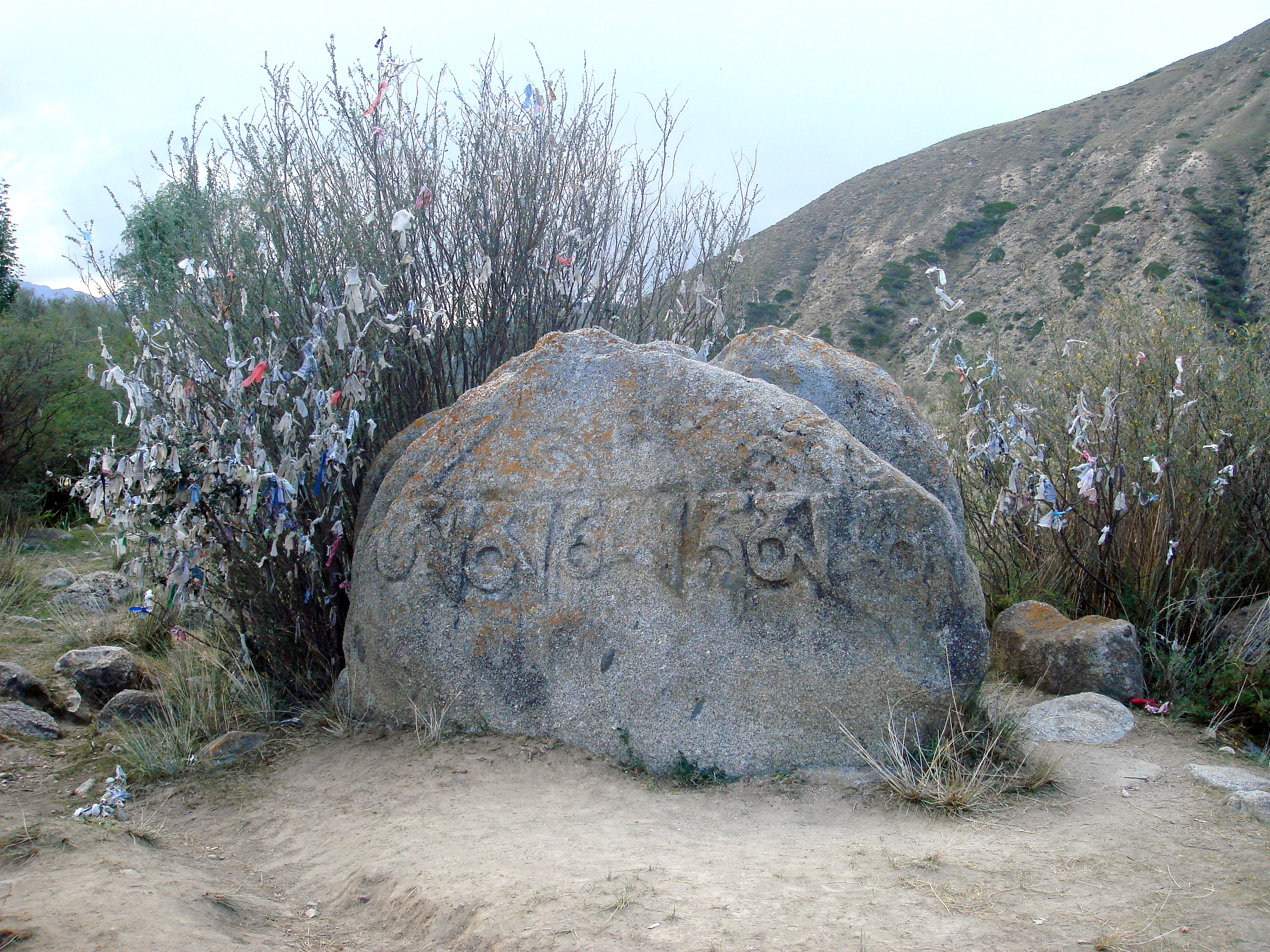 Tibetan inscription Tamga Tash near Tamga (Issyk Kul Province, Kyrgyzstan).